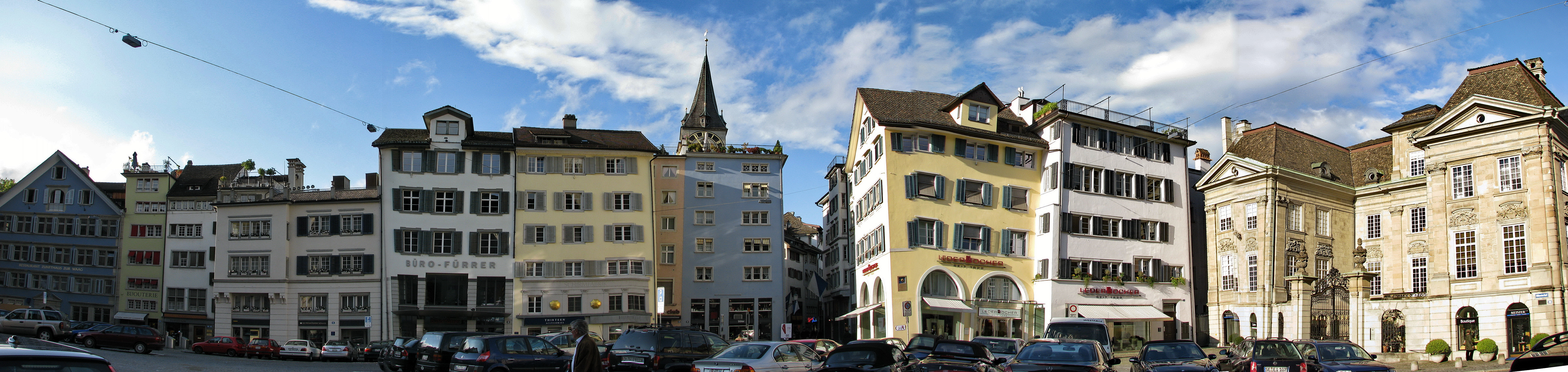 Panoramics of Münsterhof square in Zürich, Guild house zur Waag to the left, Guild house zur Meisen to the right